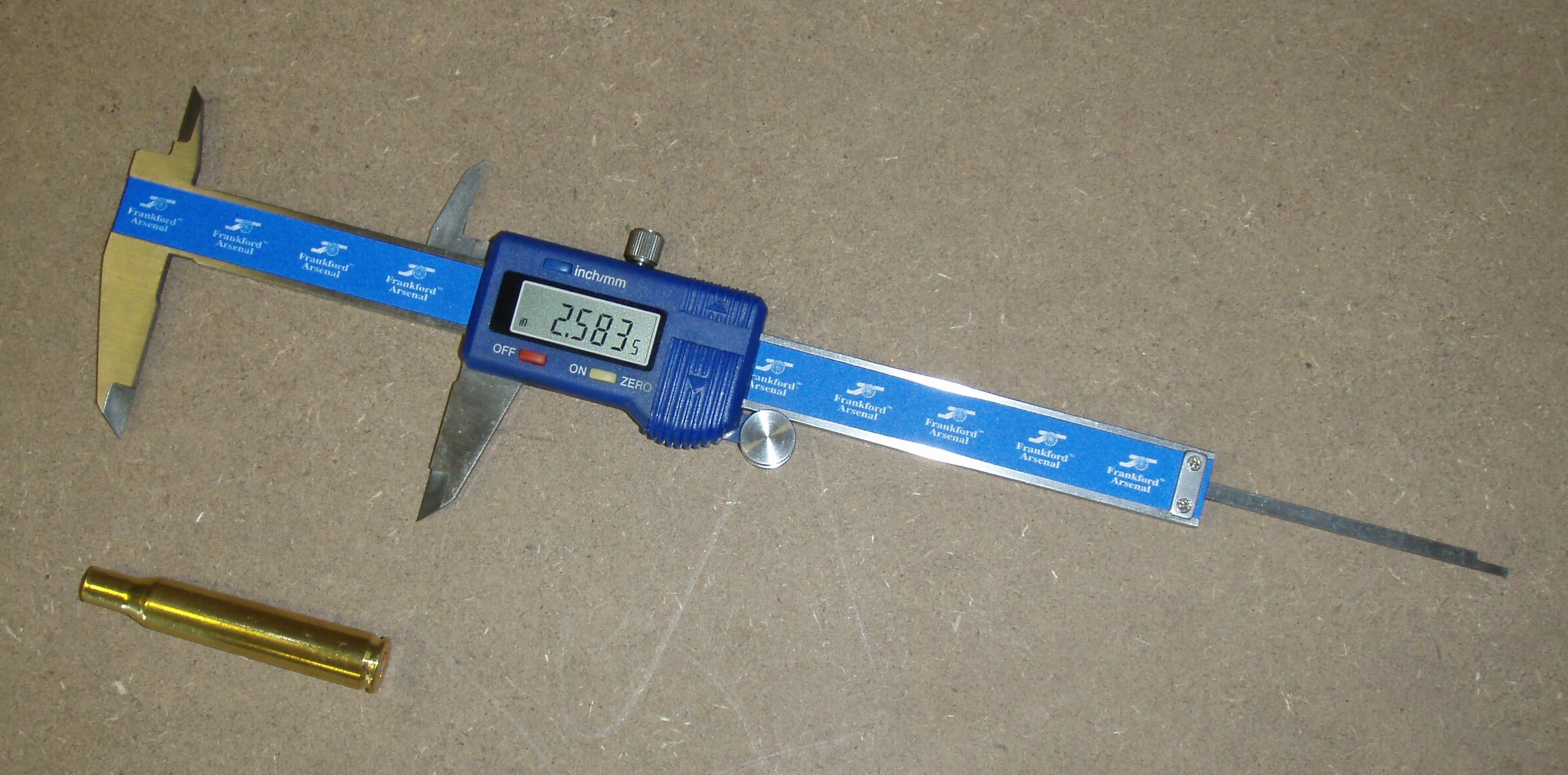 Caliper for ammunition handloading to measure cartridge case length